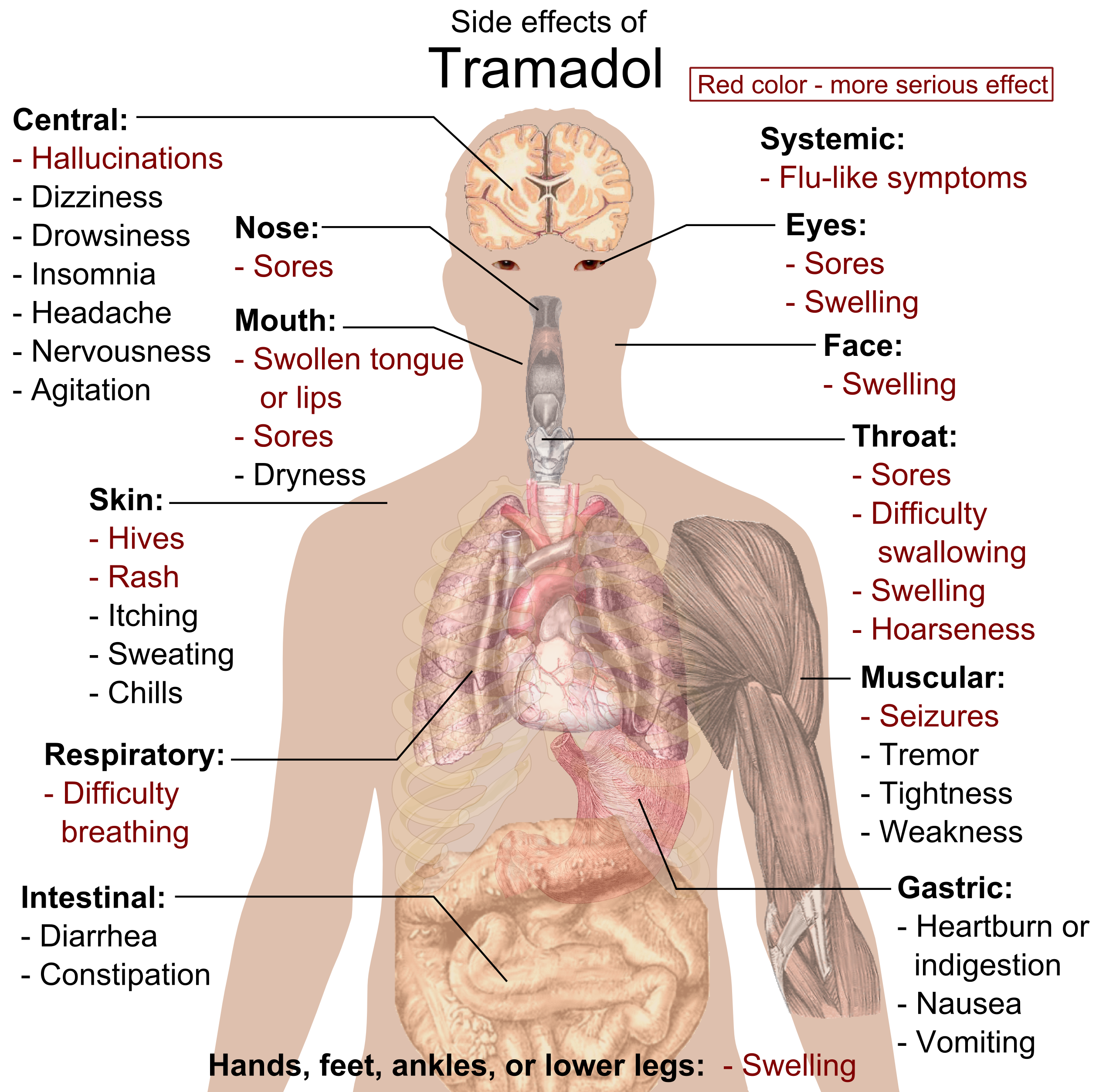 Main side effects of Tramadol. Red color denotes more serious effects, requiring immediate contact with health provider. References: MedlinePlus Drug Information: Tramadol. Retrieved on 2009-02-07, Last Revised - 07/01/2007, Last Reviewed - 09/01/2008. To discuss image, please see Template talk:Human body diagrams